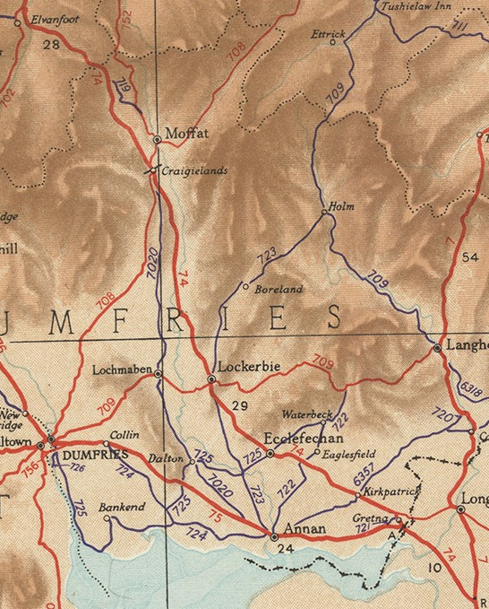 The southern extent of the A74 in Dumfriesshire, Scotland, still running on Thomas Telford's "Glasgow to Carlisle Road"